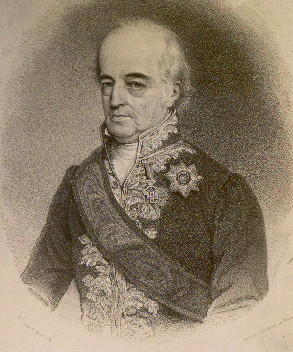 Jožef (Josip) Kalasanc Erberg (1771-1843), Slovene botanist and literary historian.